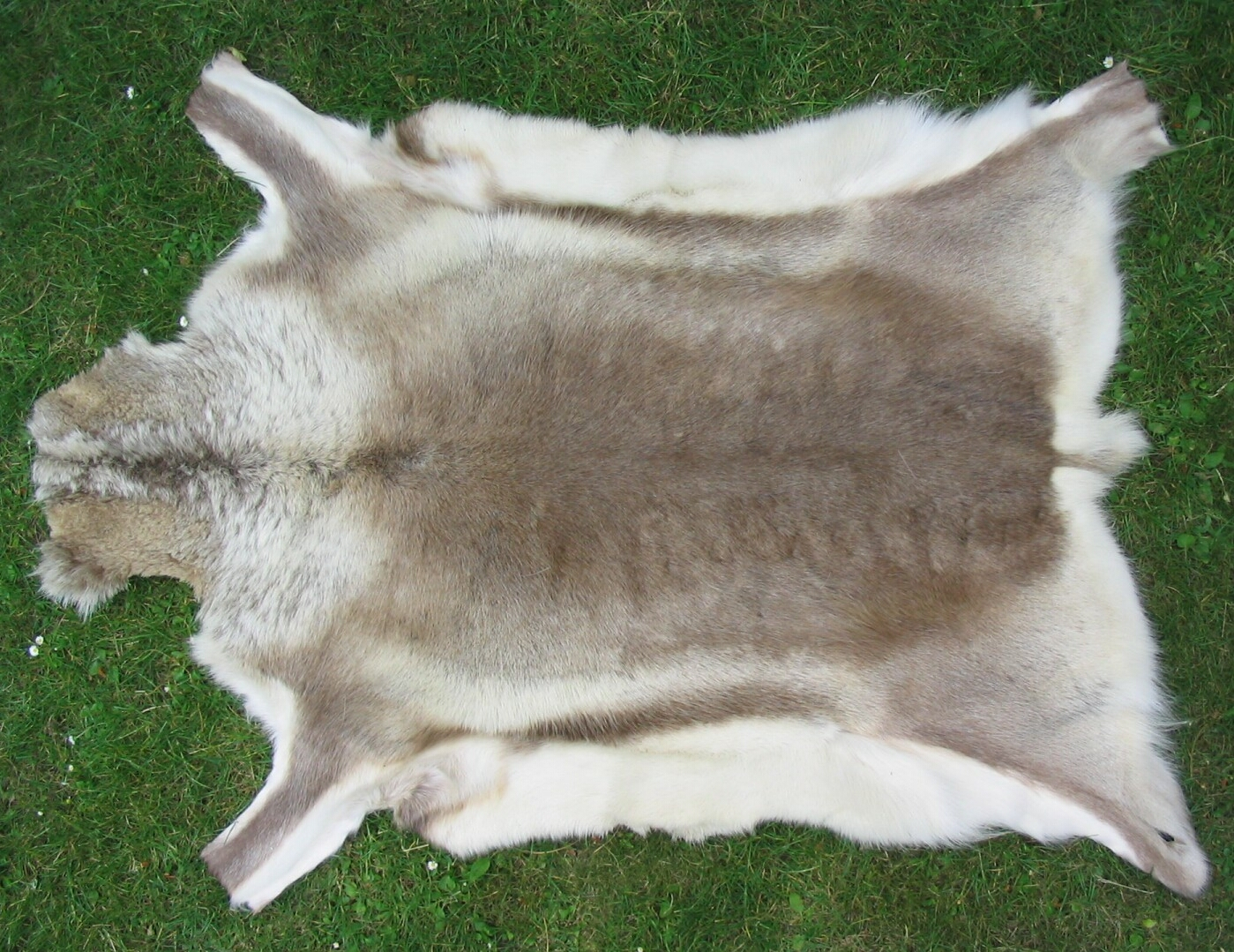 Reindeer skin, Scandinavia